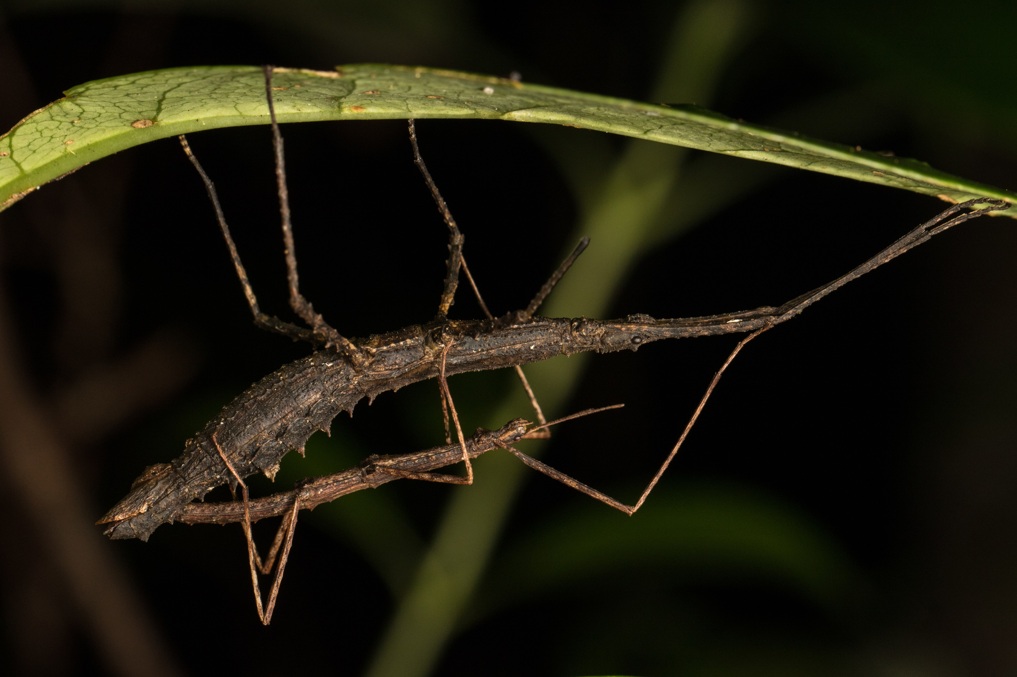 Spinotectarchus acornutus (Q10675954) by Shaun Lee via iNaturalist